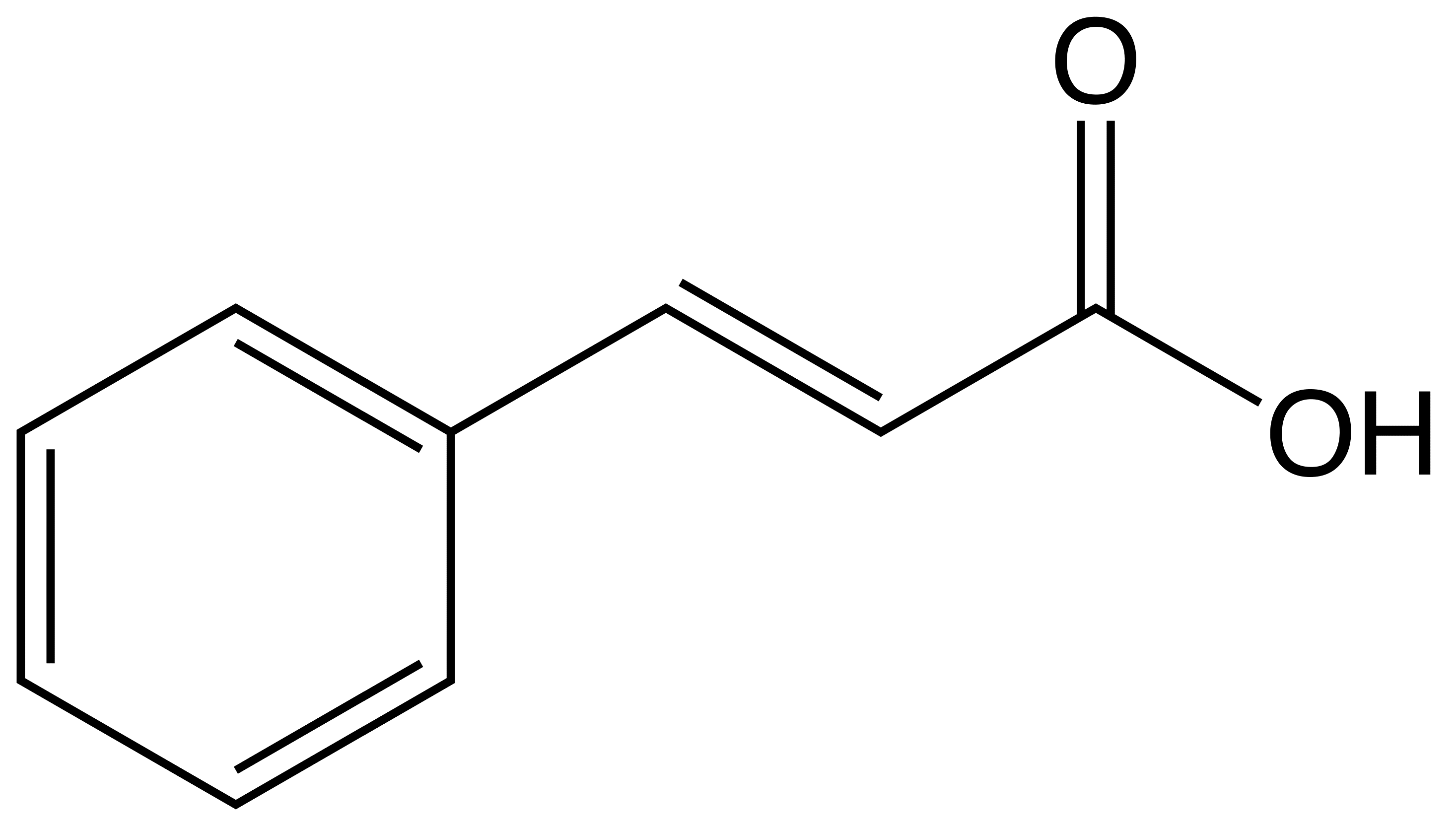 Cinnamic Acid